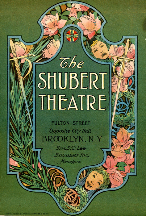 Playbill cover for the Shubert Theatre presentation of John Hudson's Wife